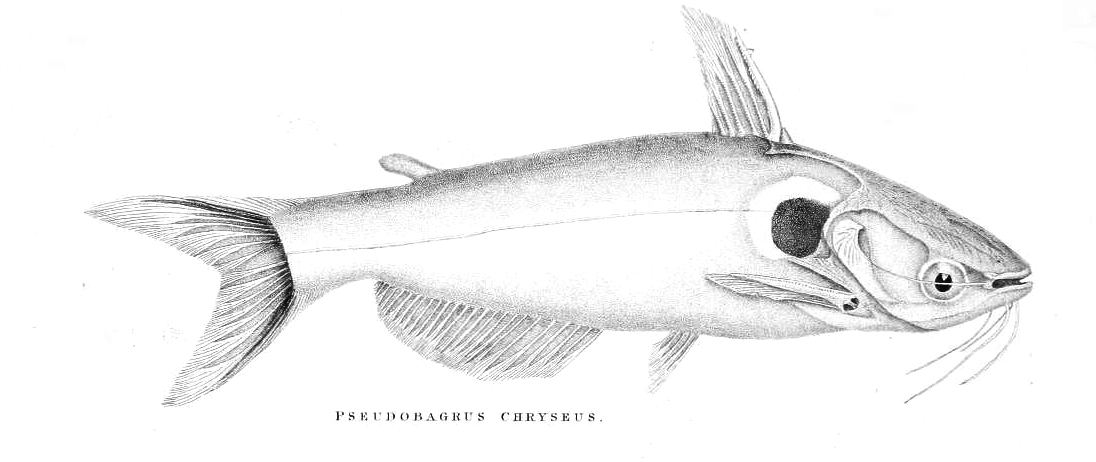 Pseudobagrus chryseus (=Syn. Horabagrus brachysoma)